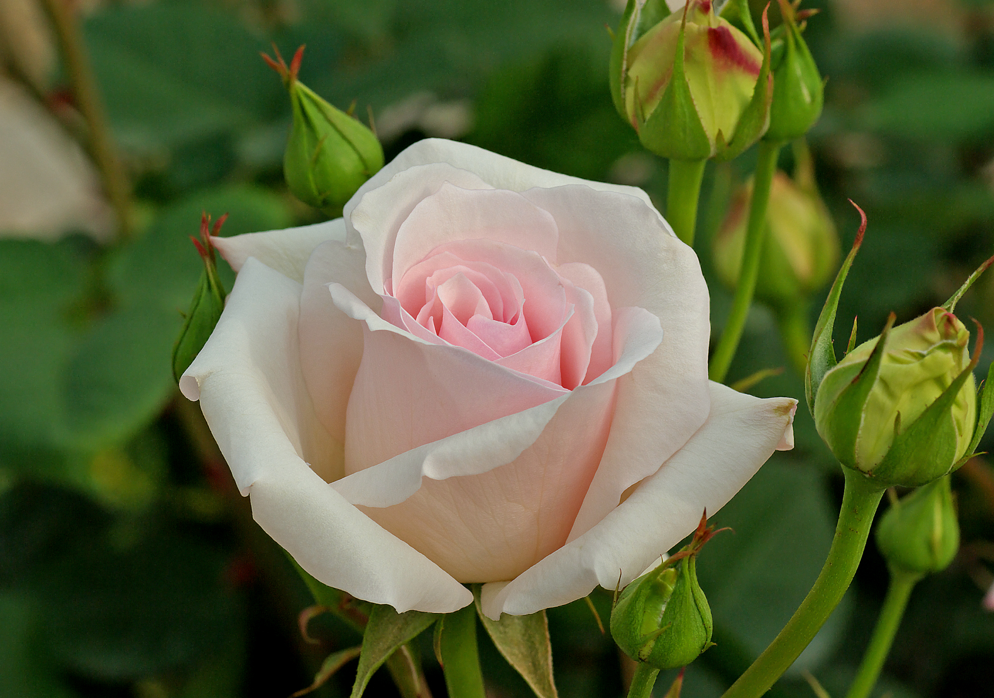 Ophelia - Hybrid Tea 1912